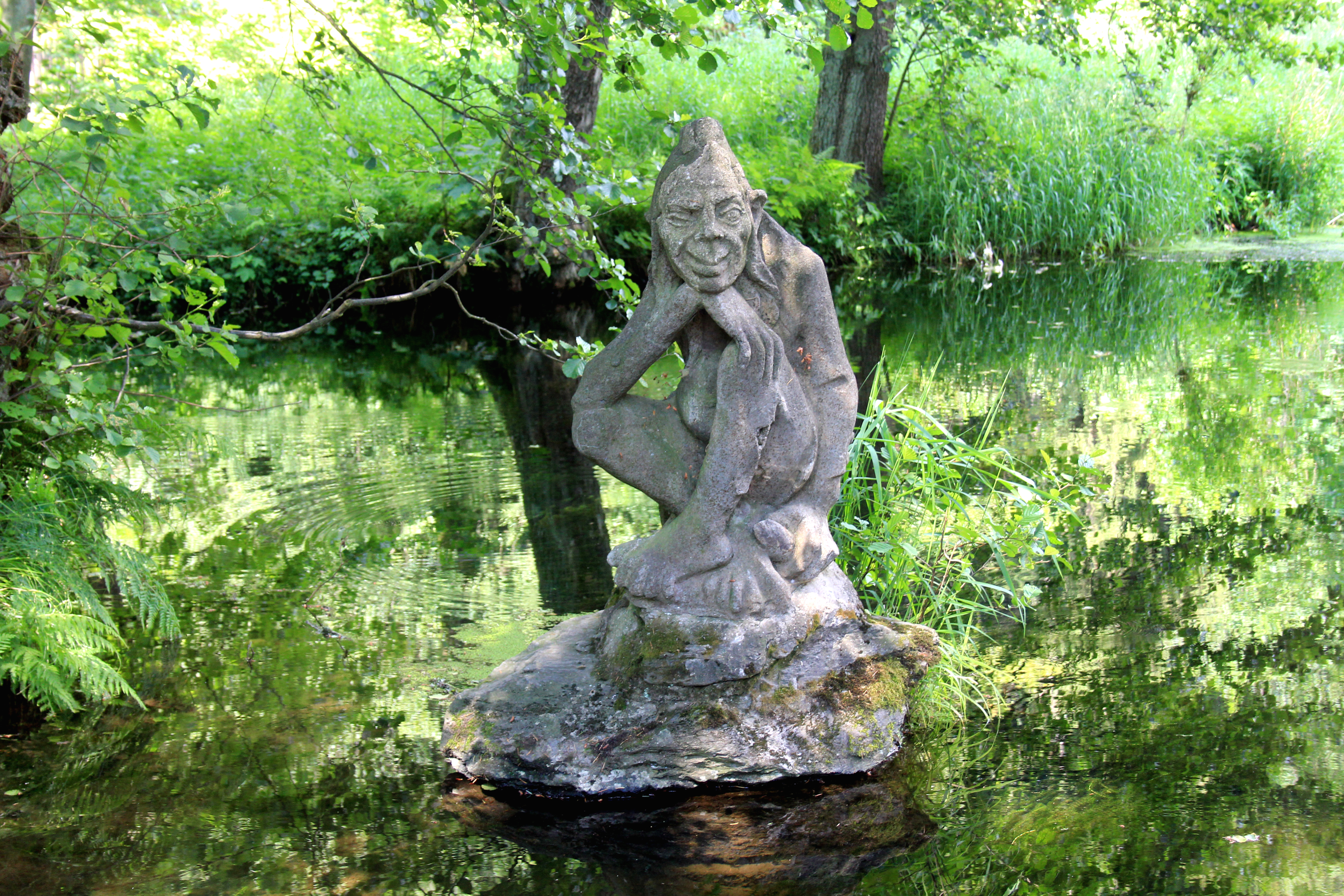 Stone vodyonoy near of restaurant in small village Peklo in Metuje river valley between Náchod and Nové Město nad Metují, eastern Bohemia, Czech Republic